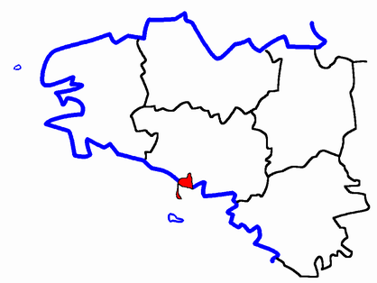 Description: Map for localisazion of cantons of Bretagne region in France Source: made by Hervé Tigier in april 2005 from another large map (published in 1990)